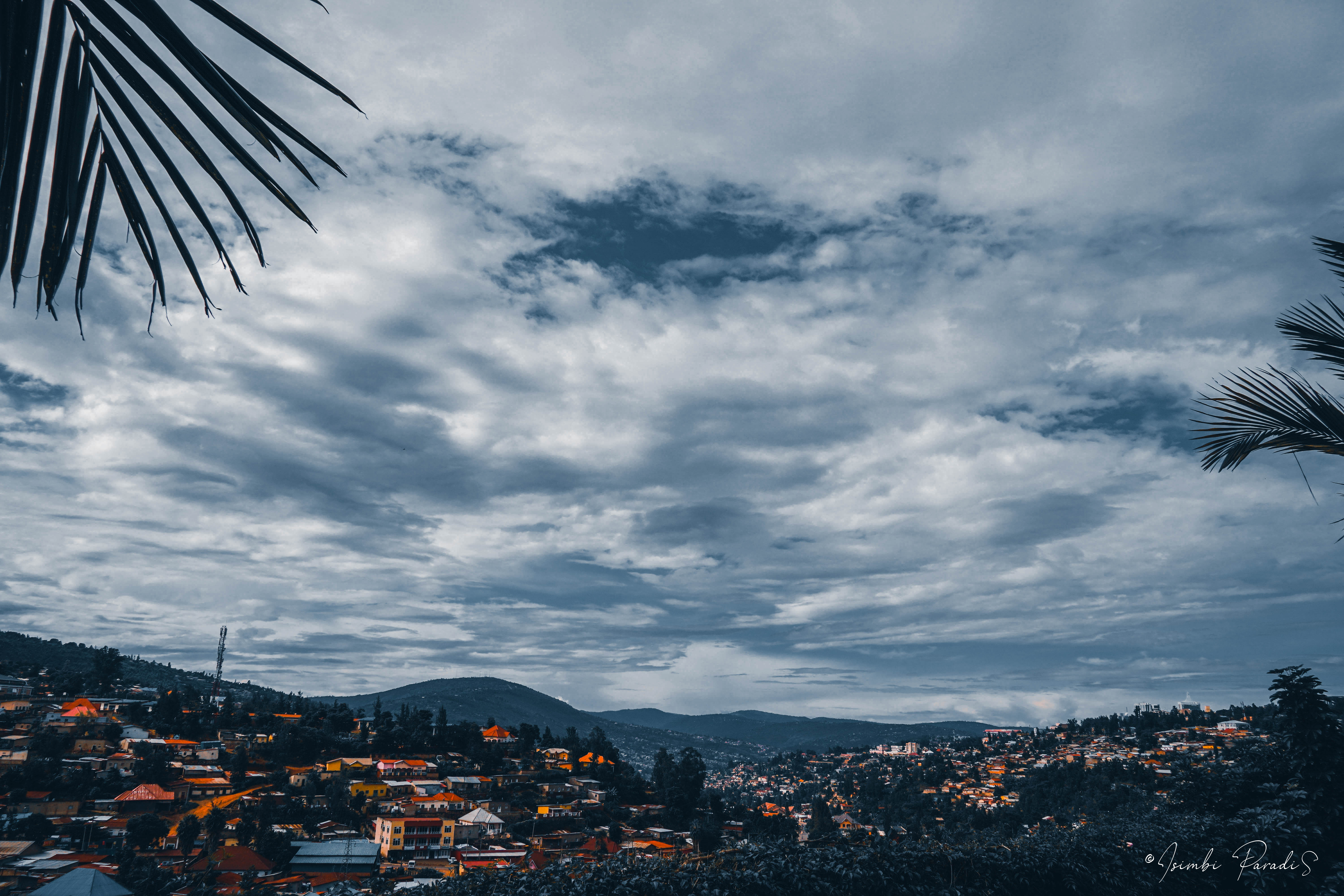 This is a landscape shot, took from nyamirambo, with the mount kigali, kabusunzu, nyabugogo and downtown as the view